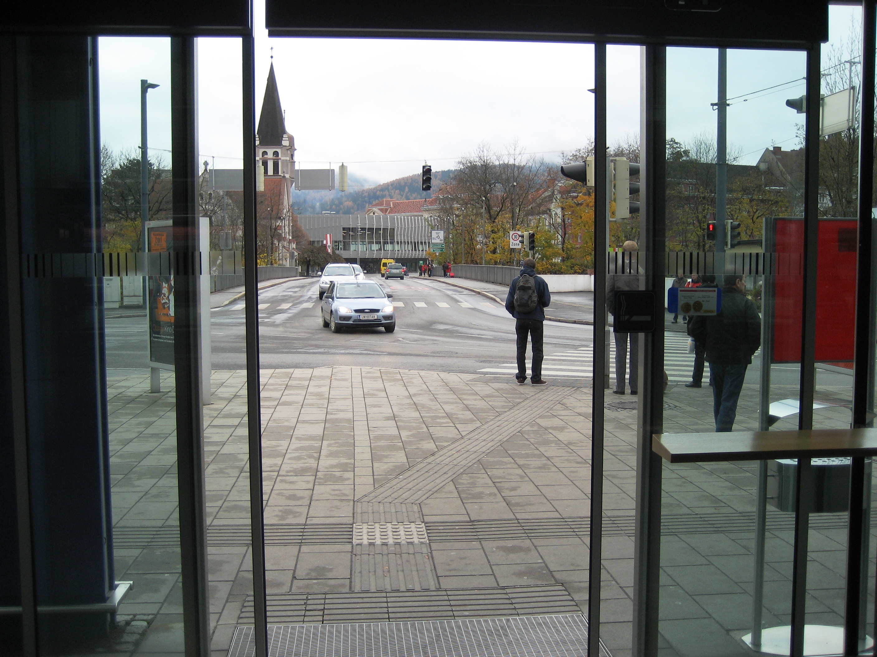 Leoben Hauptbahnhof (Leoben main station) in Leoben, Styria, Austria, Europe. View from the station